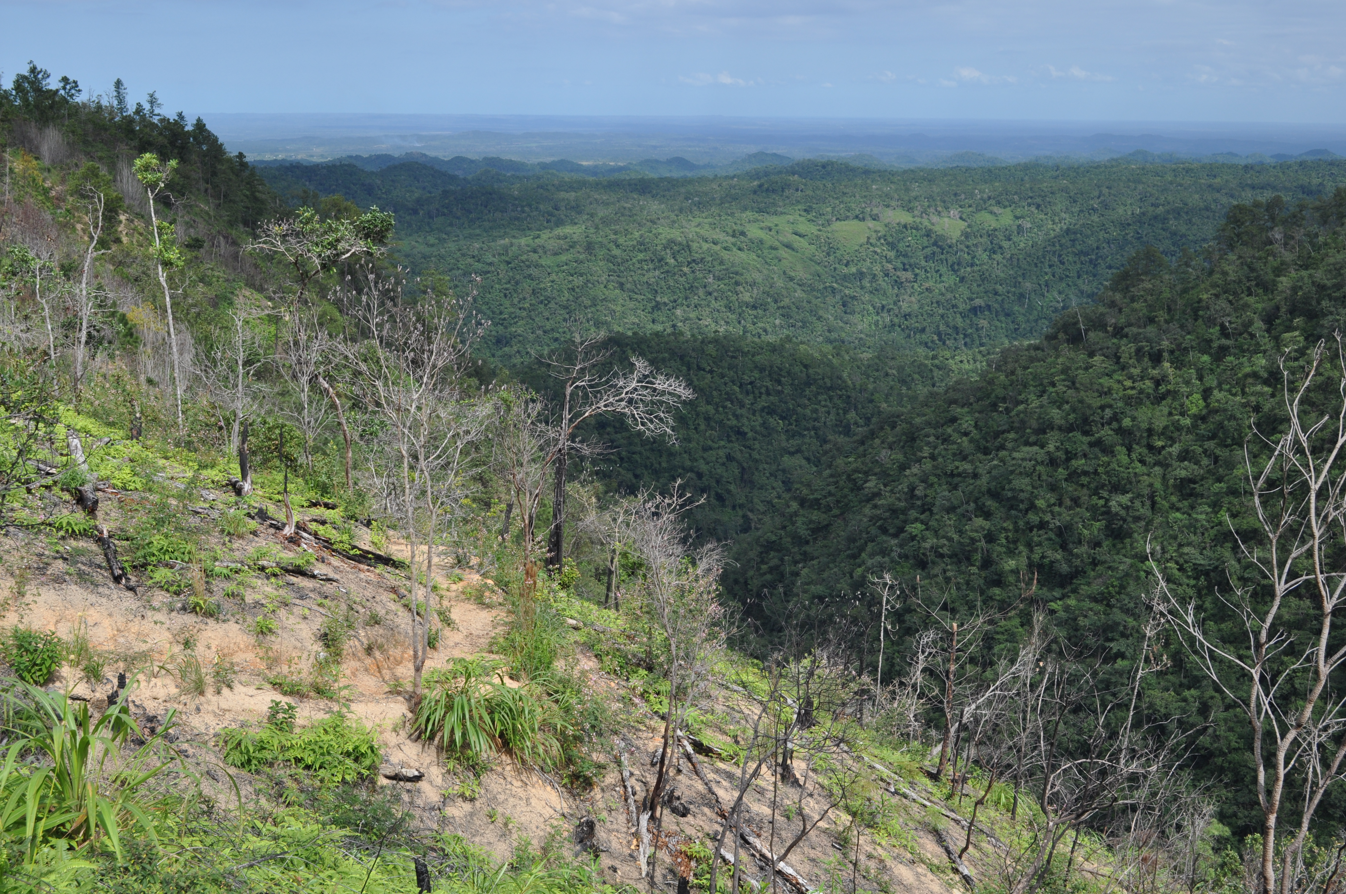 Maya Mountains, Cayo District, Belize.